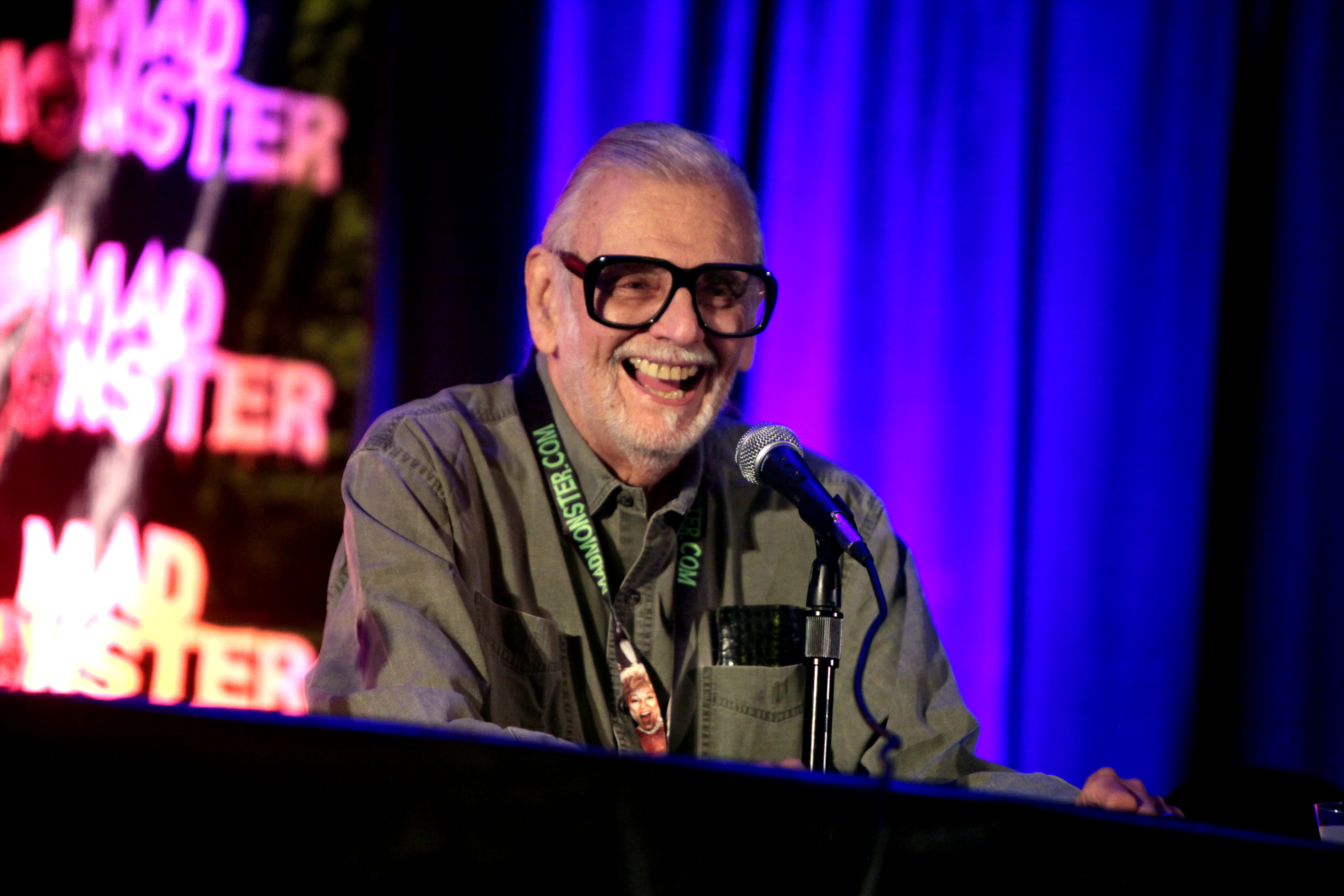 George A. Romero speaking at the 2016 Mad Monster Arizona at the We-Ko-Pa Resort & Conference Center in Scottsdale, Arizona.